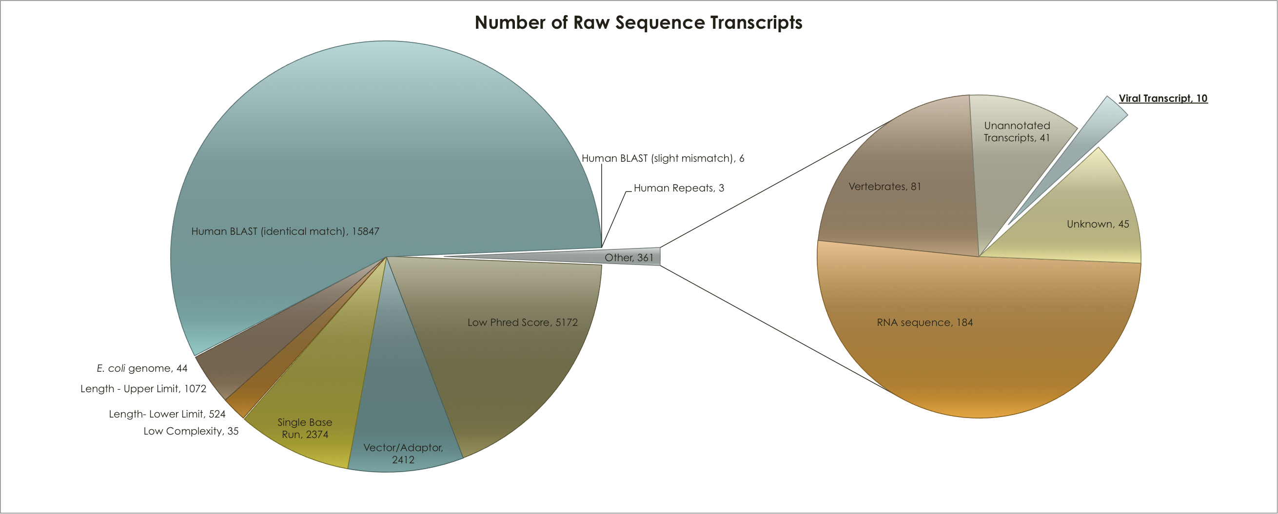 Breakdown of raw transcripts obtained from sequencing human tissue-derived libraries.